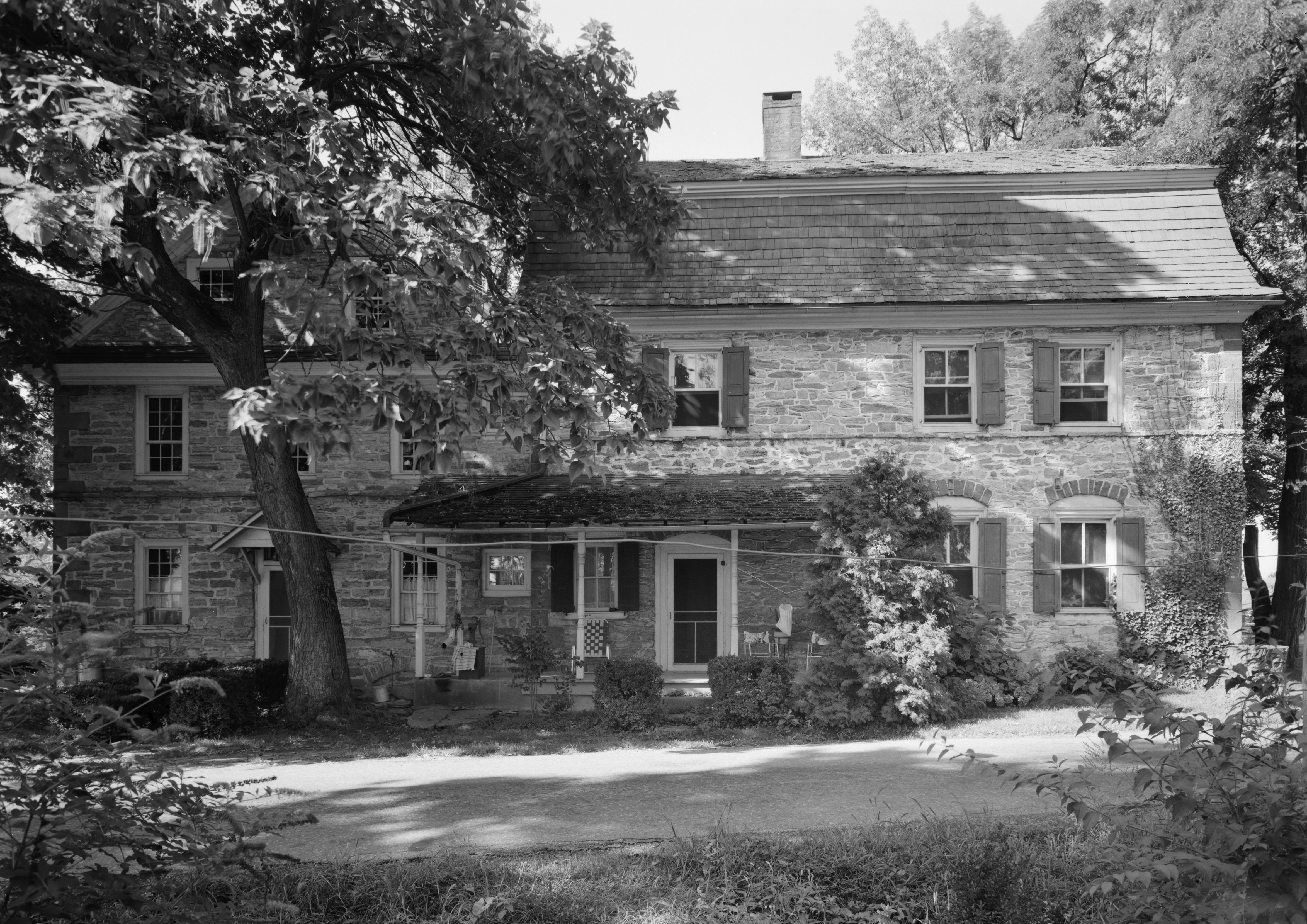 Front of the House of Miller at Millbach, located off Pennsylvania Route 419 southwest of Newmanstown in Millcreek Township, Lebanon County, Pennsylvania, United States. Built in 1752, it is listed on the National Register of Historic Places.